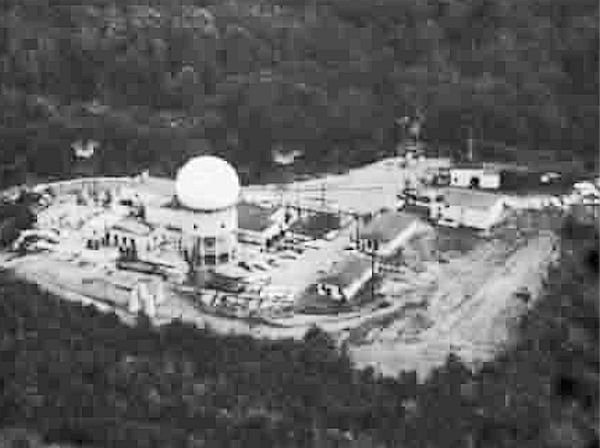 Photo of HIghlands AFS New Jersey 1960